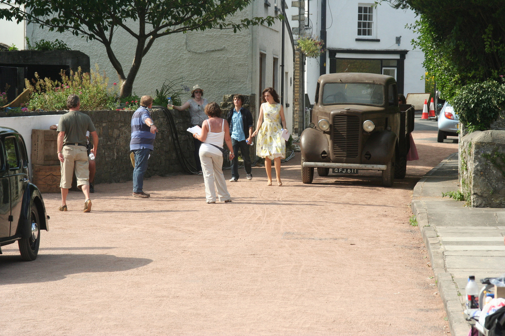 Picture canon including tw 078